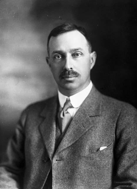 Photograph of Roland B. Dixon by David de Harport, Harvard. Courtesy of the Peabody Museum of Archaeology and Ethnology, Harvard University, PM 2004.24.22856